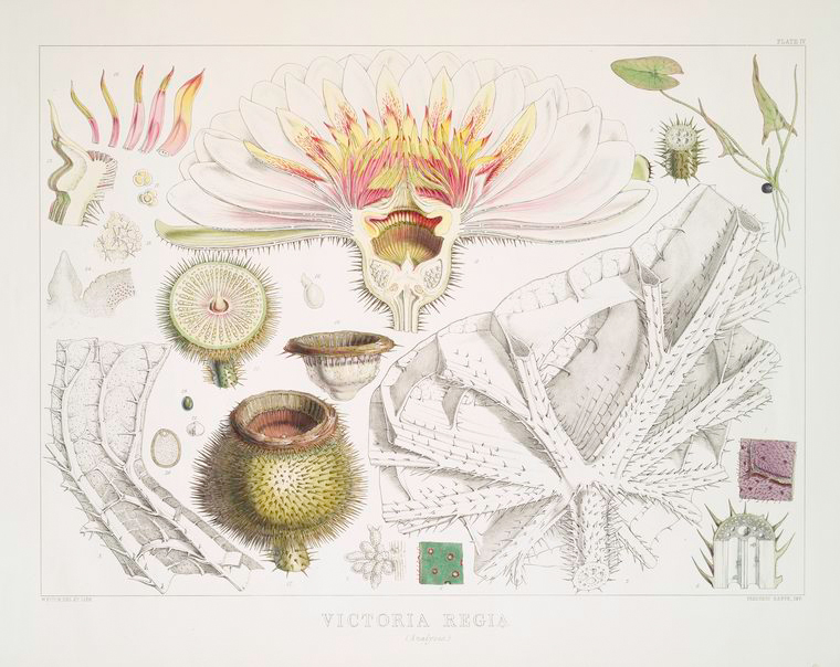 Scan of plate 4 from a monograph describing and illustrating the species Victoria amazonica.